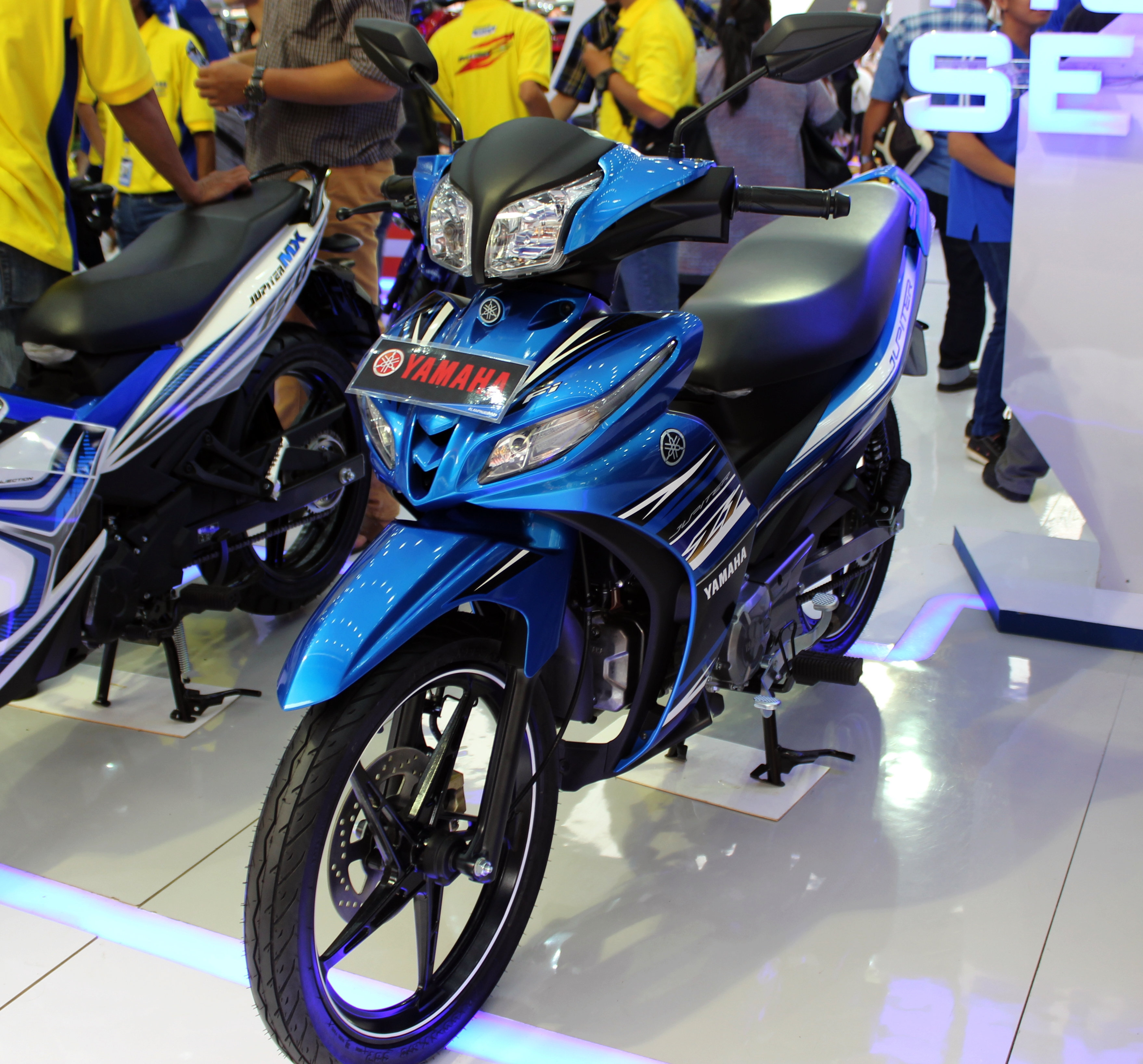 A Yamaha Jupiter Z1 photographed in Jakarta Fair 2016, Jakarta, Indonesia on June 21, 2016.